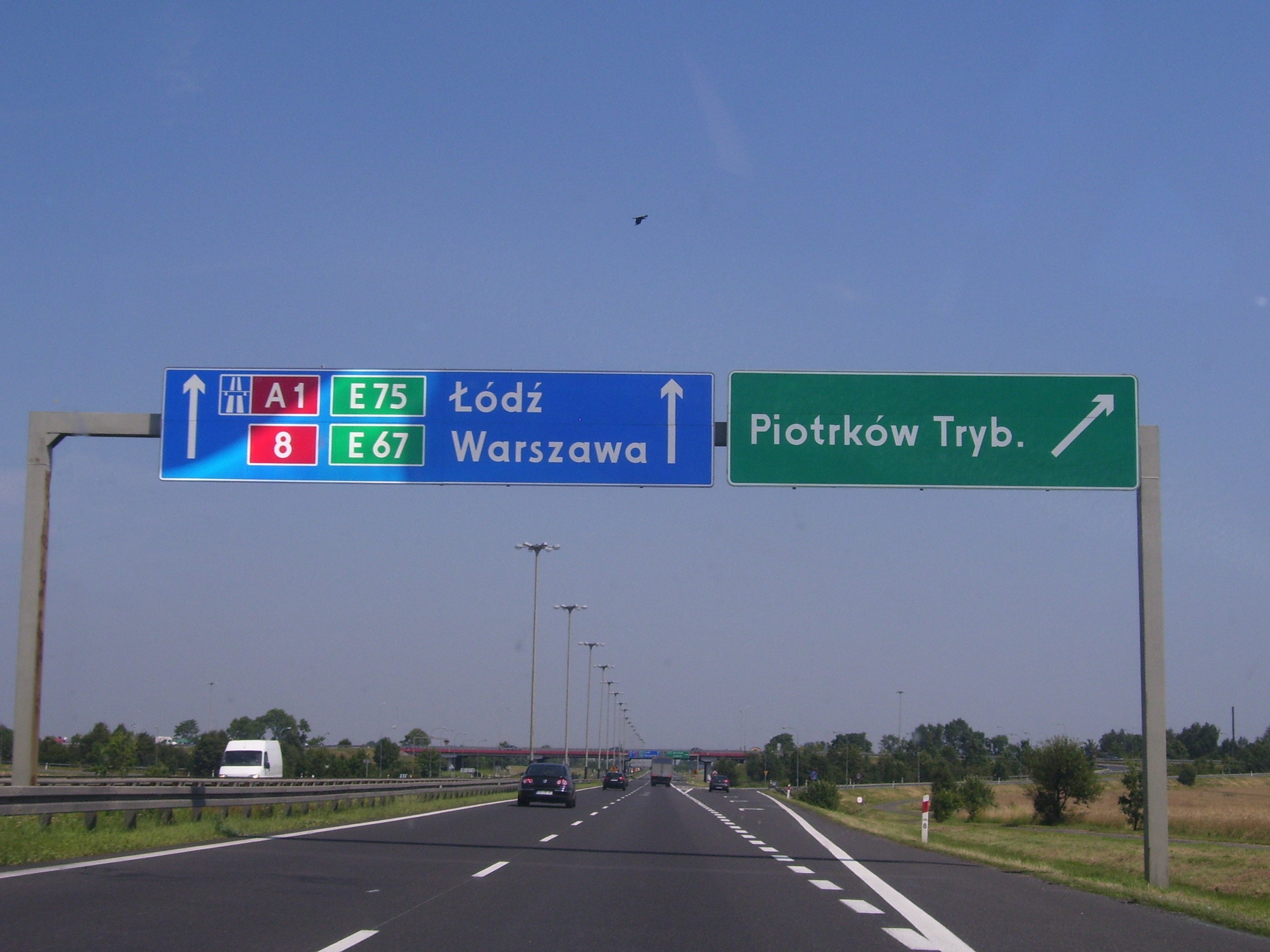 Highway A1 in Poland.